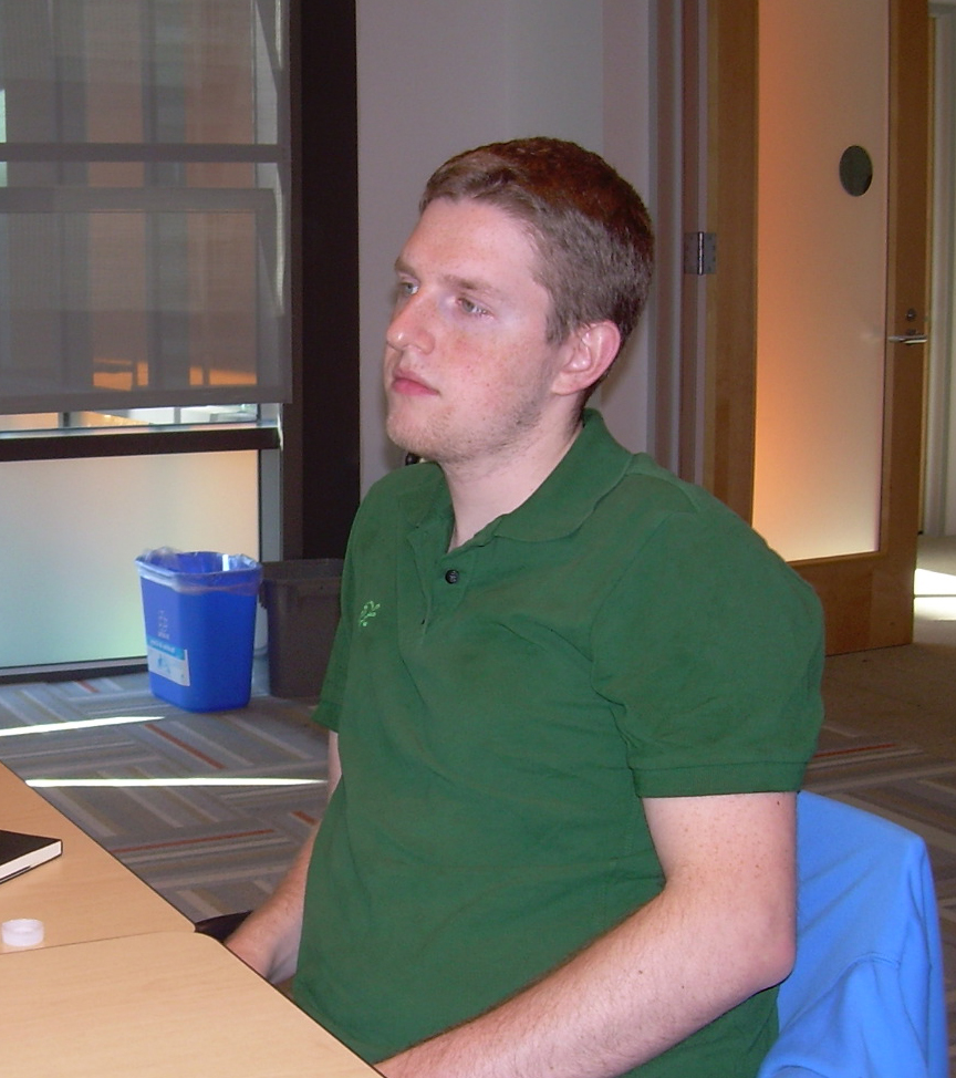 Matt Mullenweg, American entrepreneur and founding developer of the popular open-source blogging software WordPress.